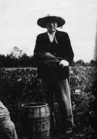 The future Japanese Prime Minister Ichirō Hatoyama (1883–1959, in office 1954–56), farming in Karuizawa while he was the purged by SCAP.